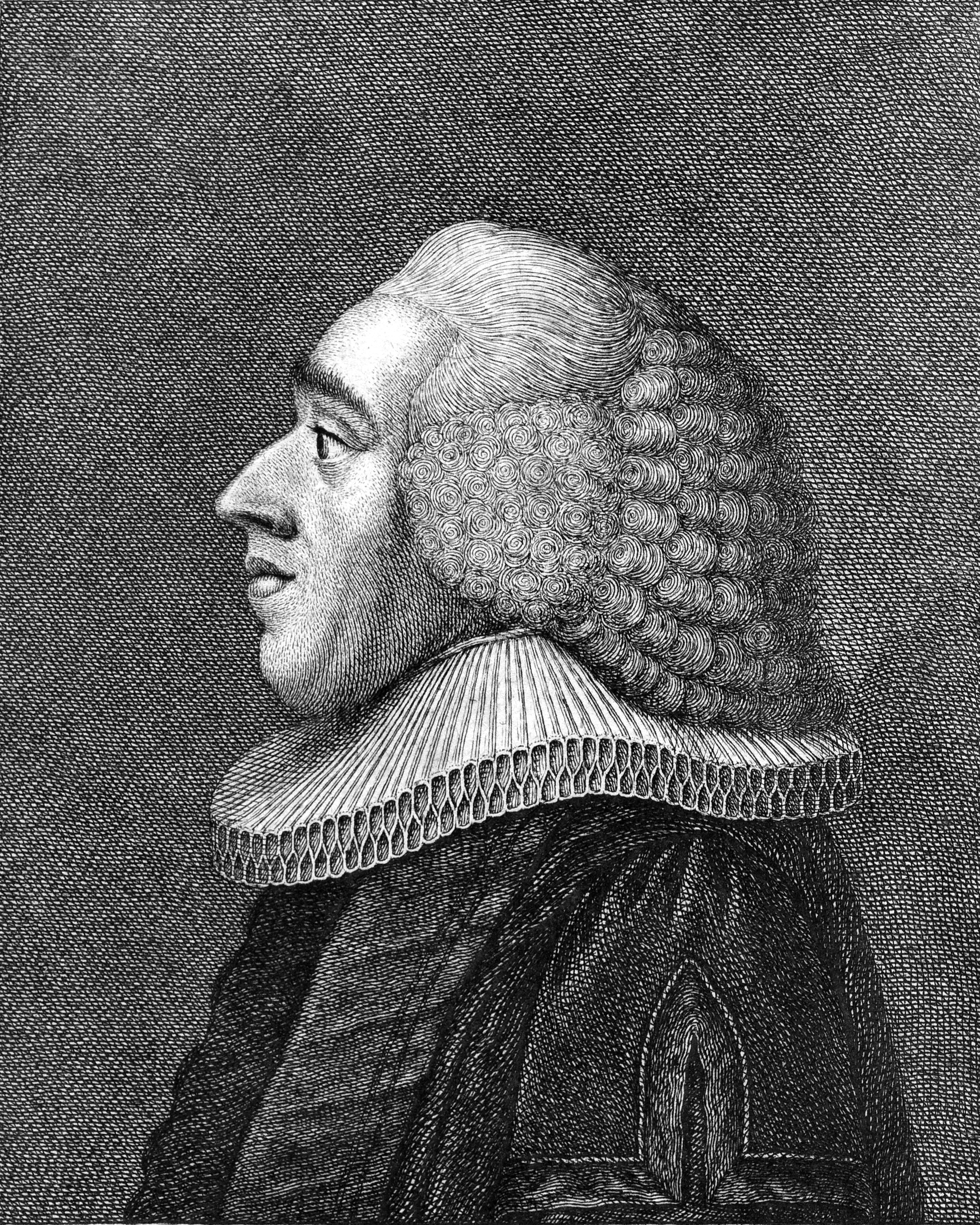 Depicted person: Christoph Christian Sturm